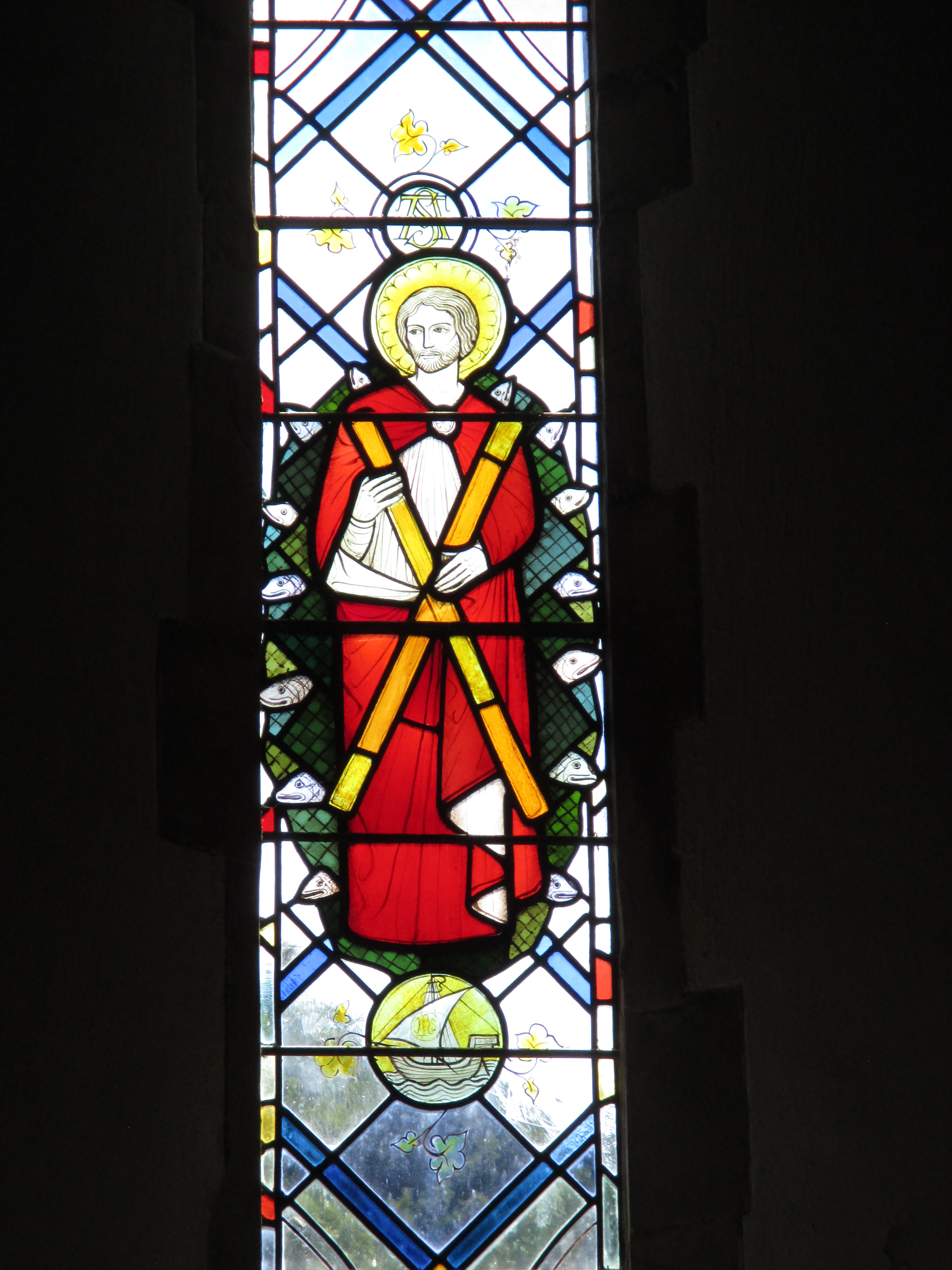 Part of the sixth south window of the chancel of St Andrew and St Mary the Virgin's Church, Fletching, East Sussex. The stained glass was made in 1977 by Lawrence Lee and represents St Andrew.